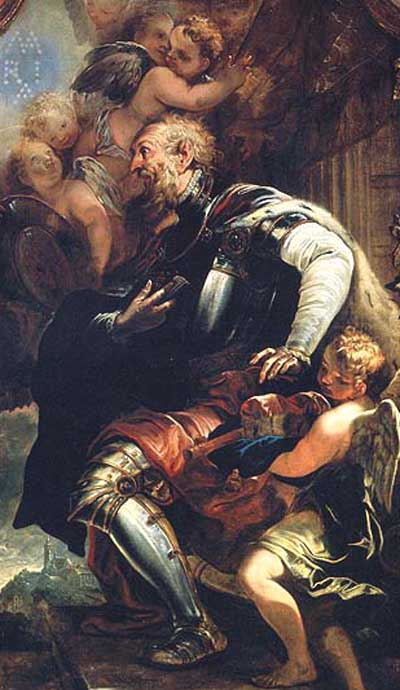 Baroque painting of St. Rasso, also named Graf Ratt, Ratho or Grafrath, also Rasso von Andechs, 9th or 10th century founder of one bavarian monastery and church, at Grafrath.